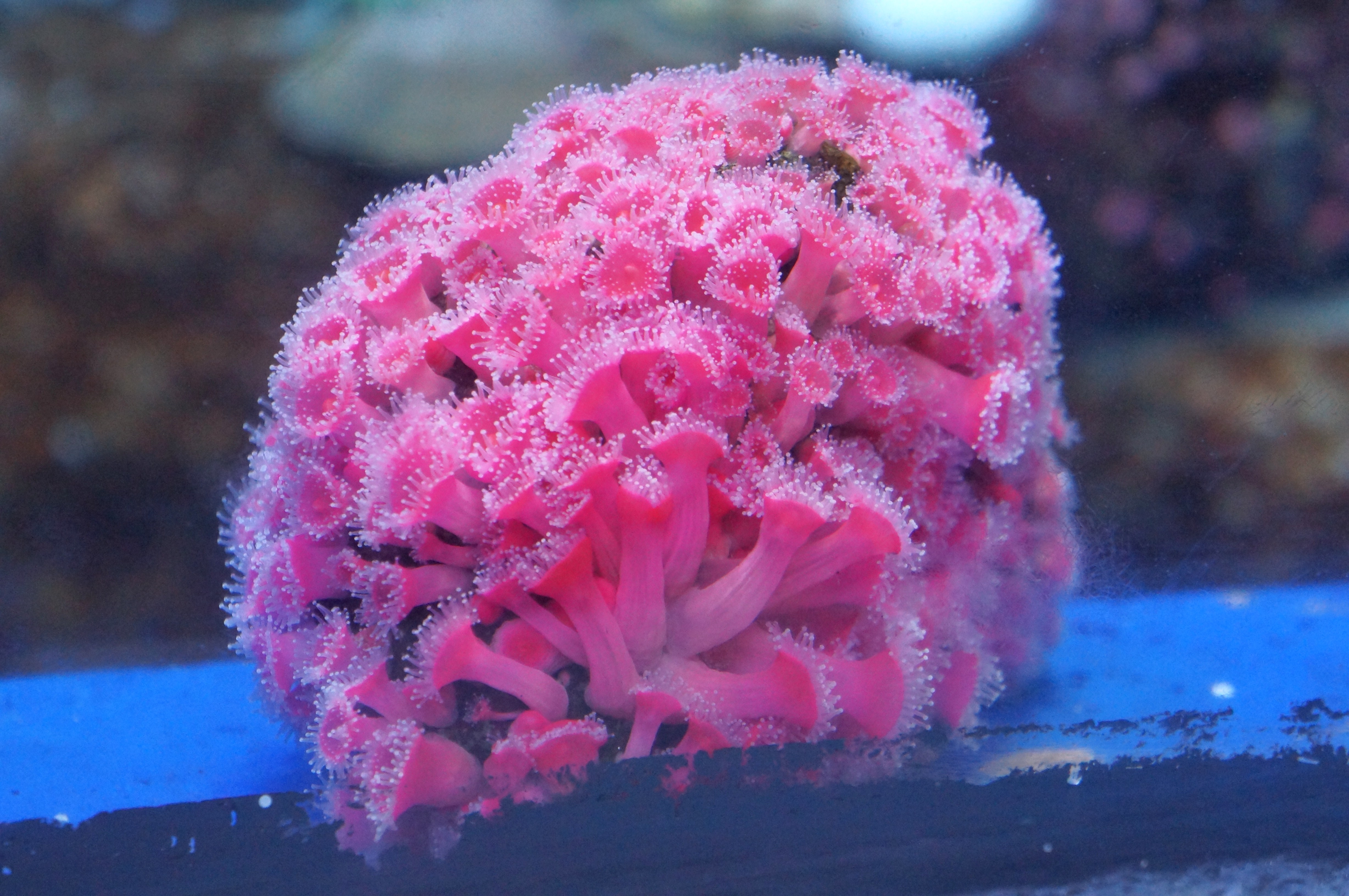 Pink coral